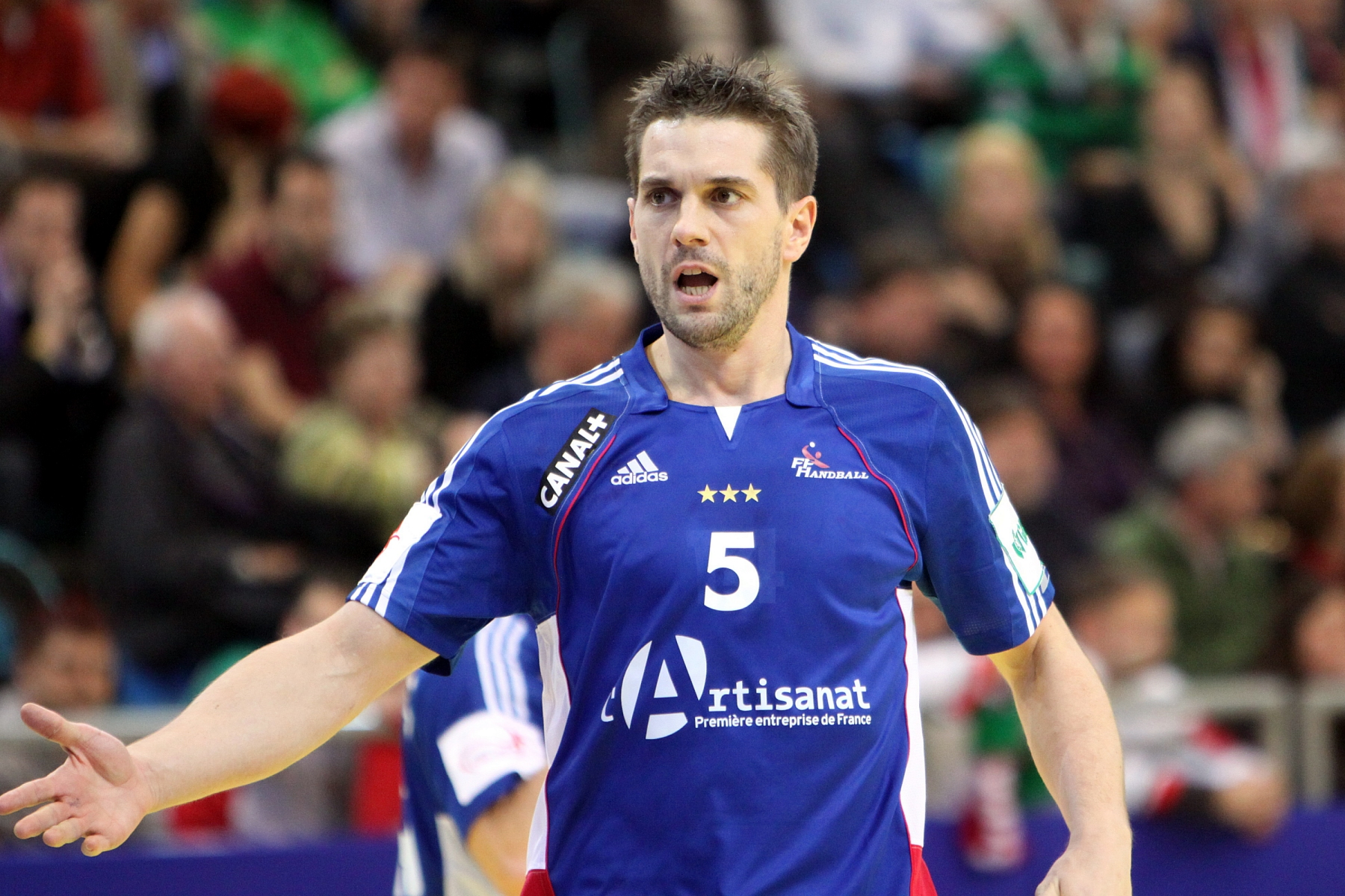 Guillaume Gille (HSV Hamburg), France national handball team